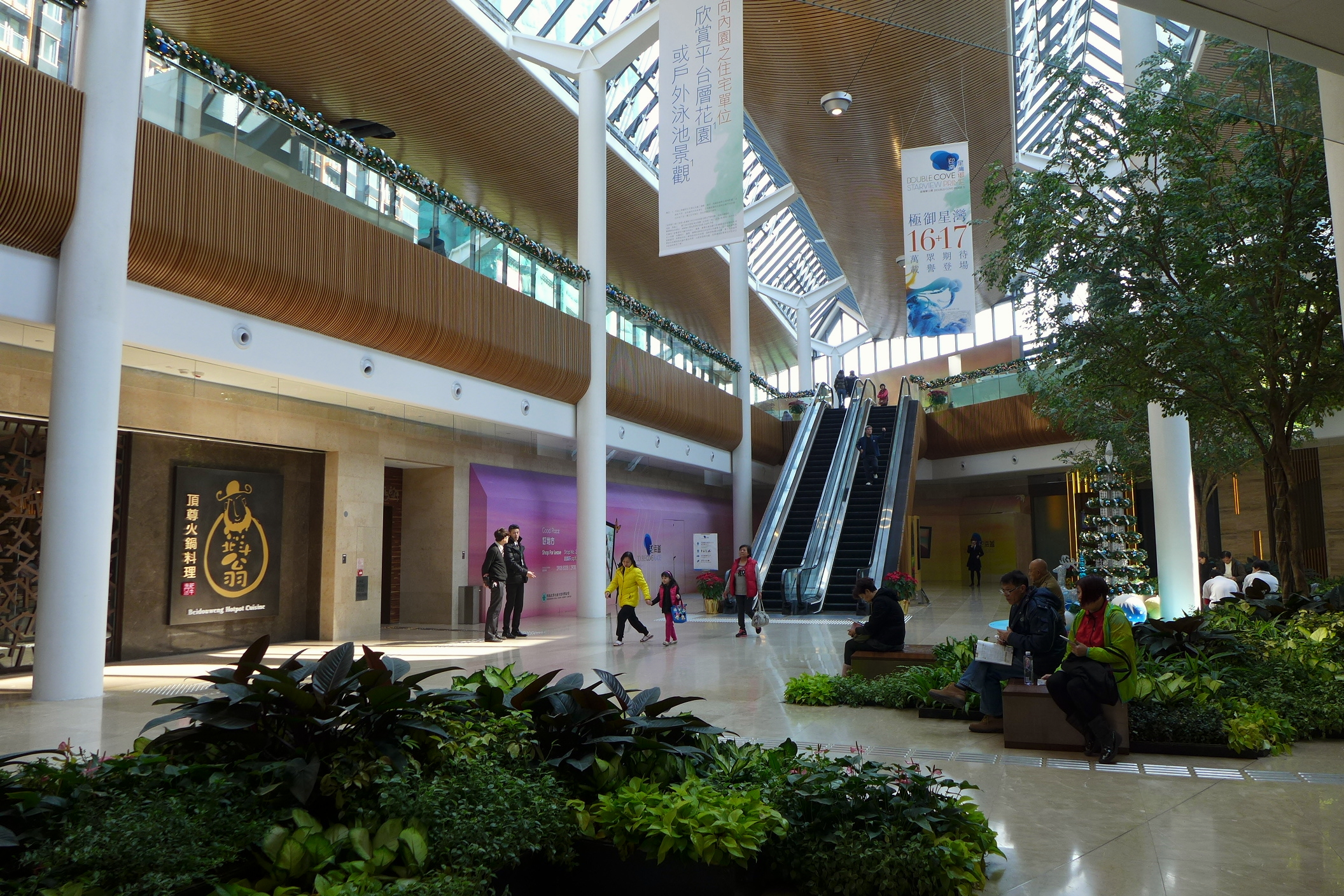 Double Cove Place Void